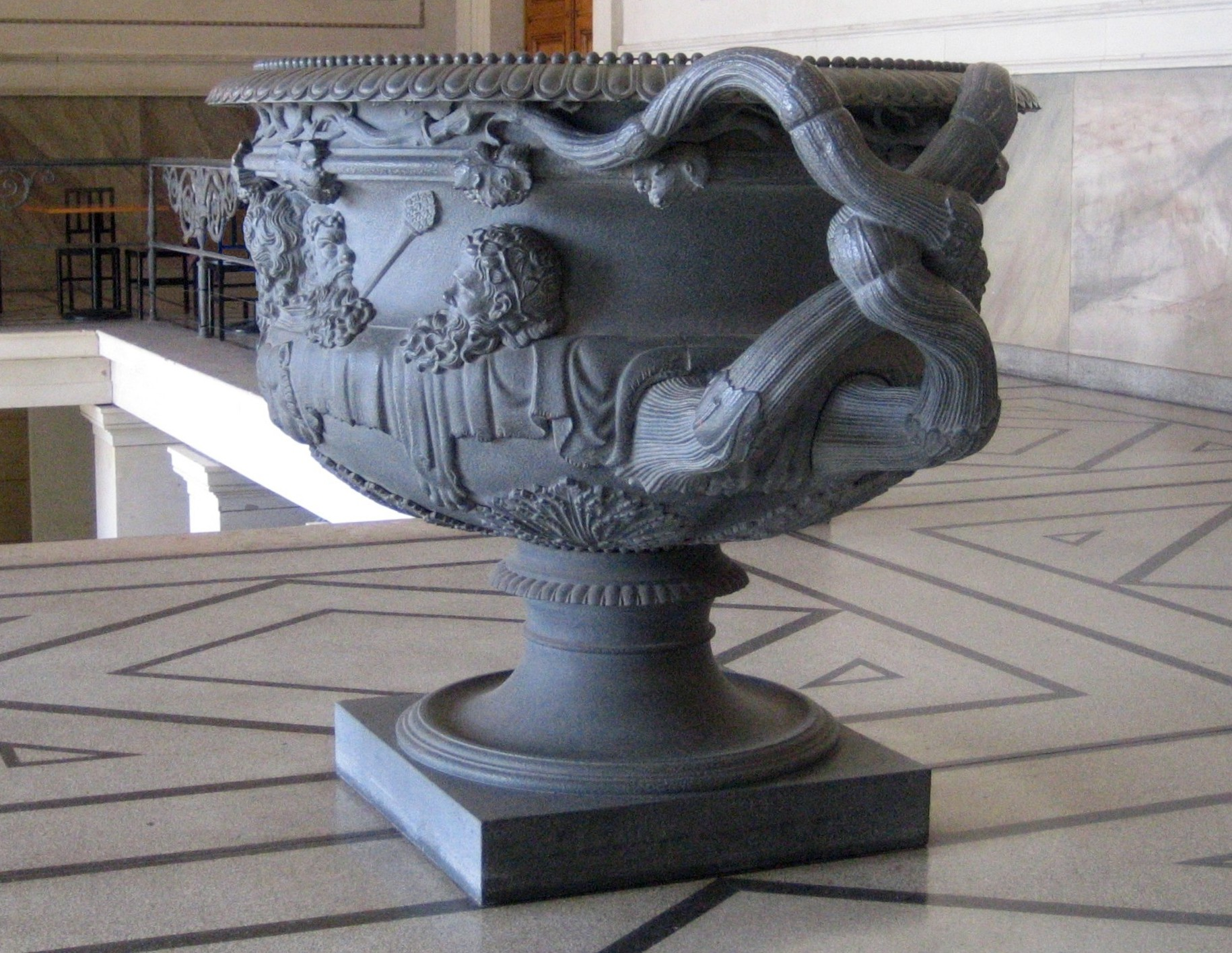 Altes Museum, Berlin. An iron copy of the so-called "Warwick-Vase", a famous huge antique marble-object.